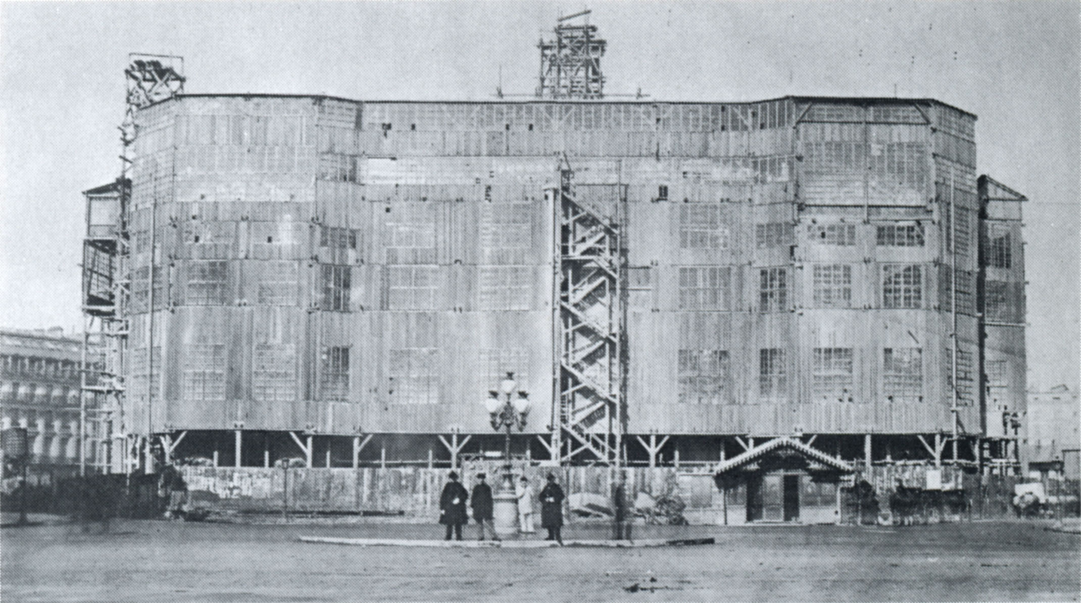 Covered facade of the Palais Garnier after November 1866